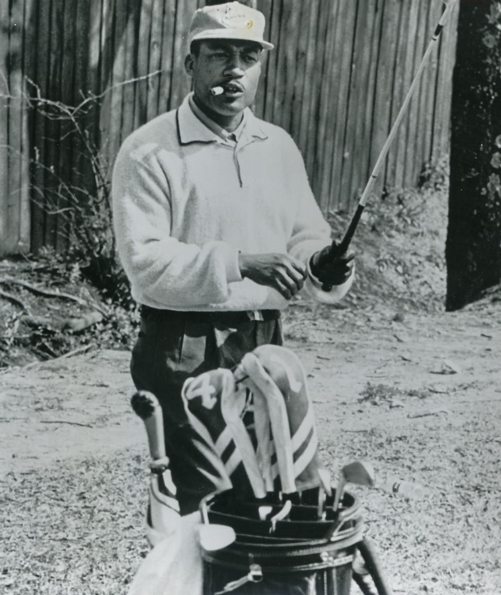 Charlie Sifford in 1961